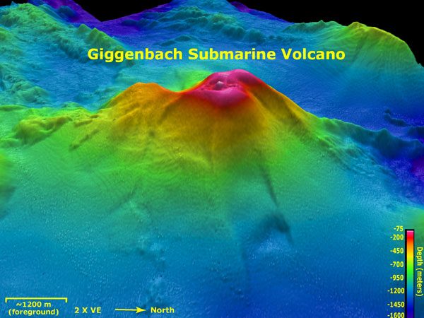 Giggenbach submarine volcano viewed from the east looking west. Depths range from 75 to 1600 meters (246 - 5250 feet) in this image.